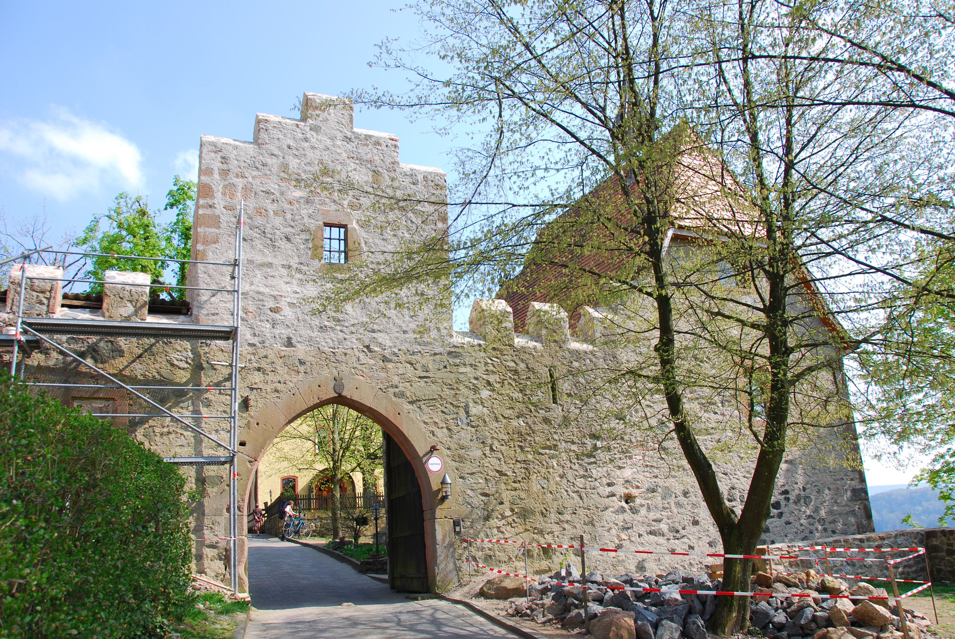 Gate to Reichenberg Castle